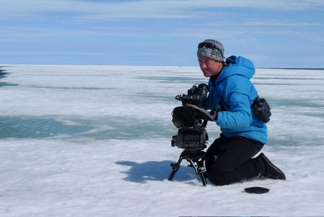 cameraman doug anderson filming on the flow edge in arctic canada